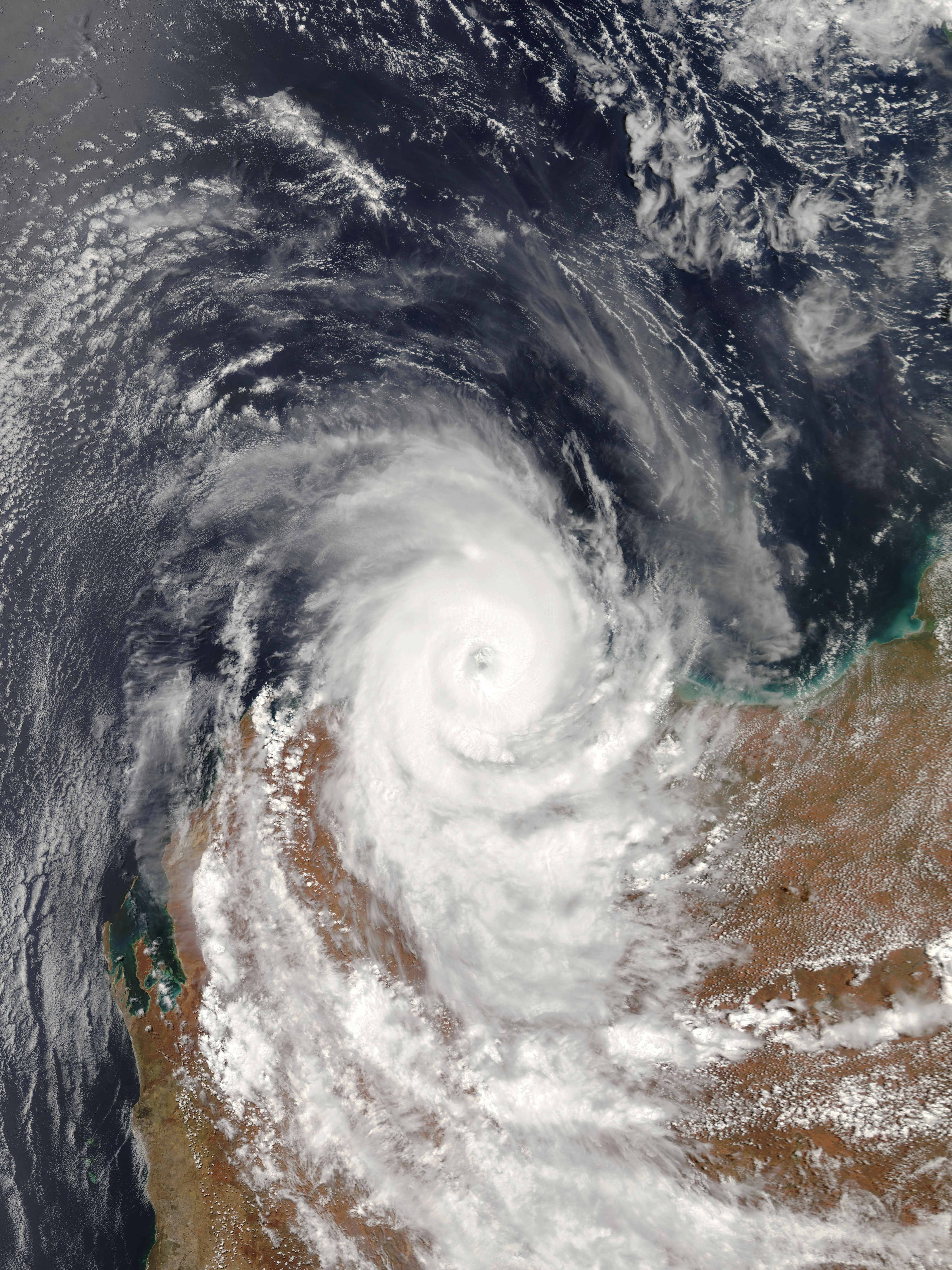 Severe Tropical Cyclone Damien at peak intensity, approximately one hour before making landfall at Dampier, Western Australia, on 8 February 2020.